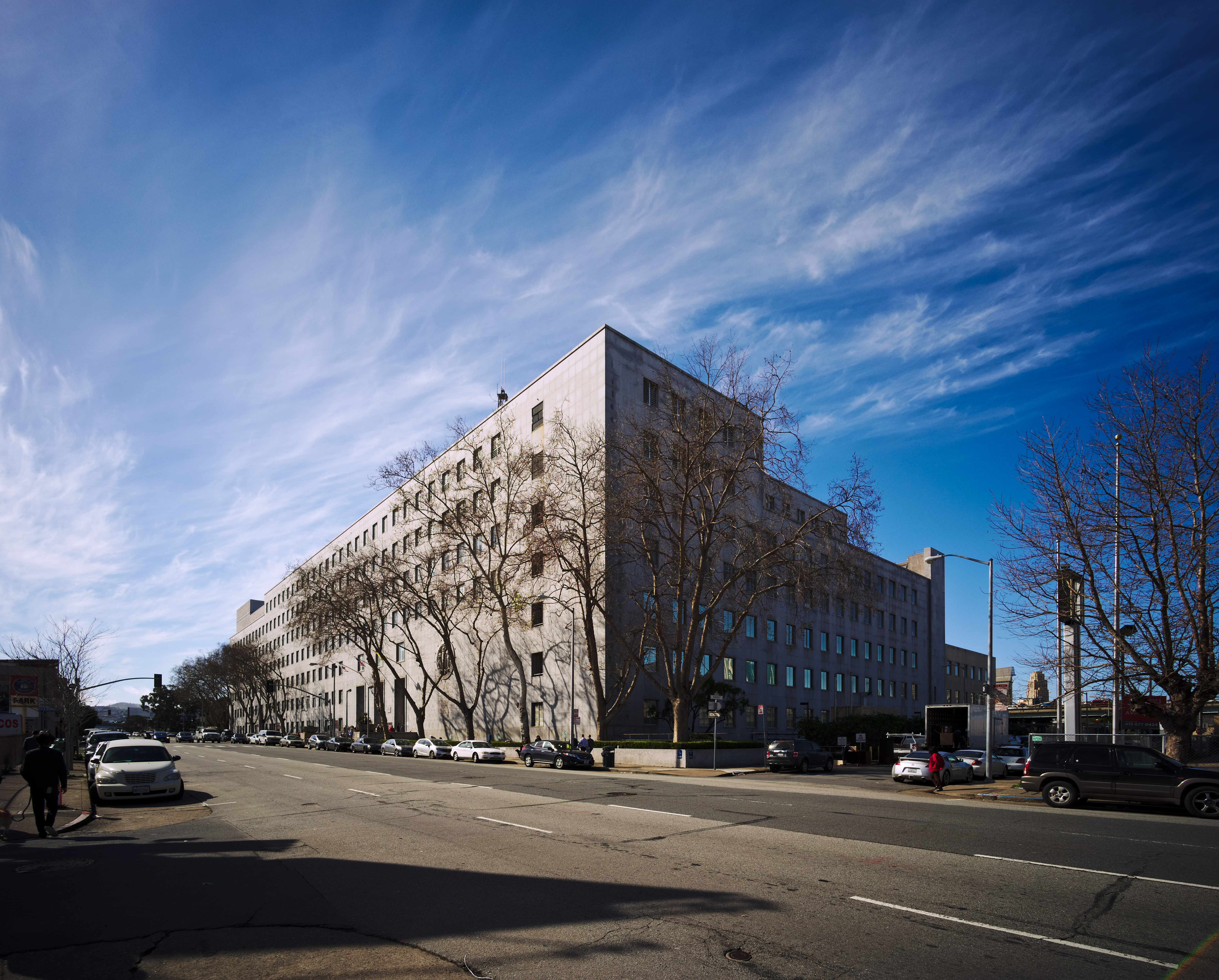 The Hall of Justice in San Francisco is the former headquarters of the San Francisco Police Department and also contains courts and jails.